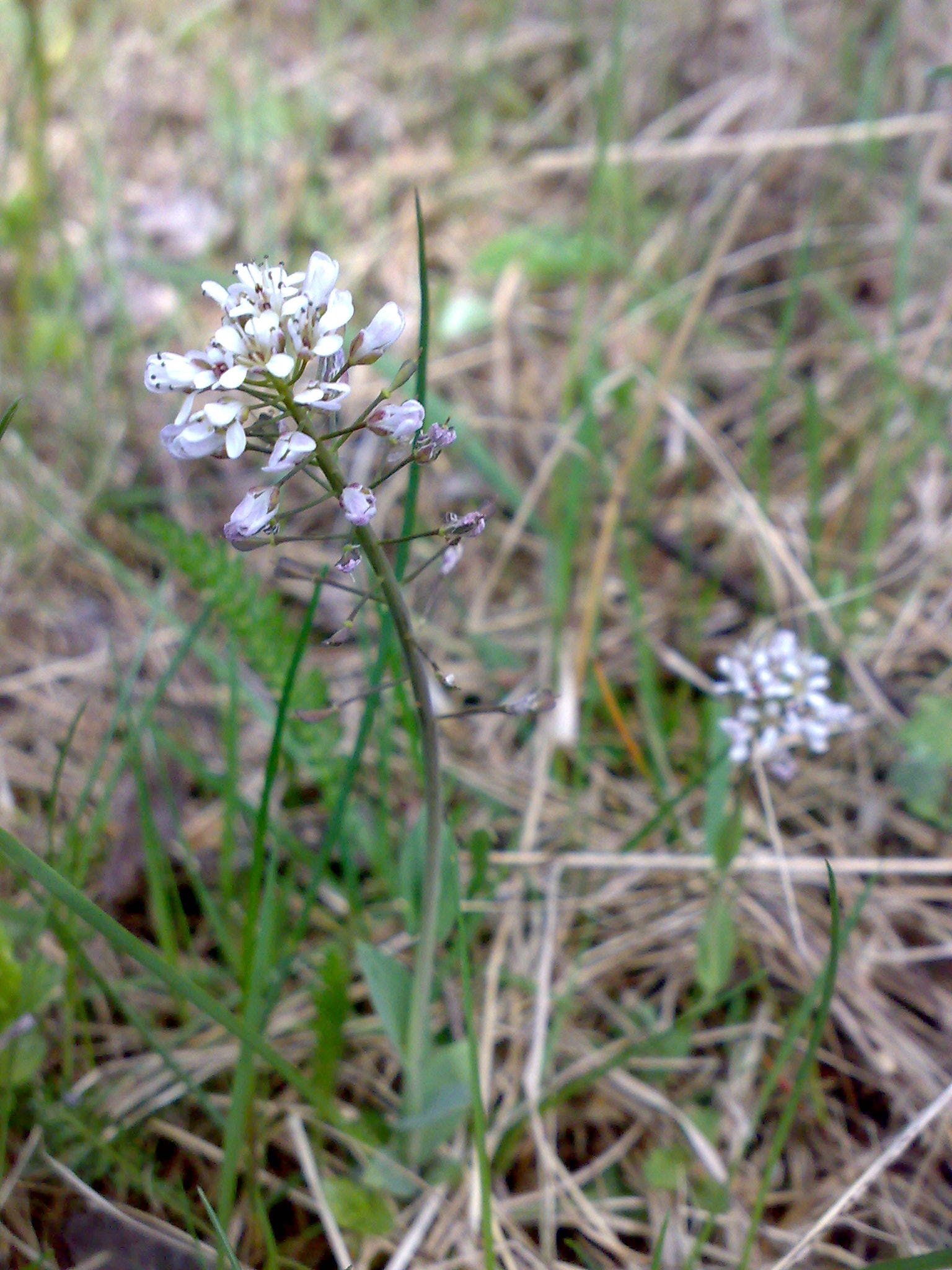 Vårpengeurt, Noccaea caerulescens, Hurum, Norway